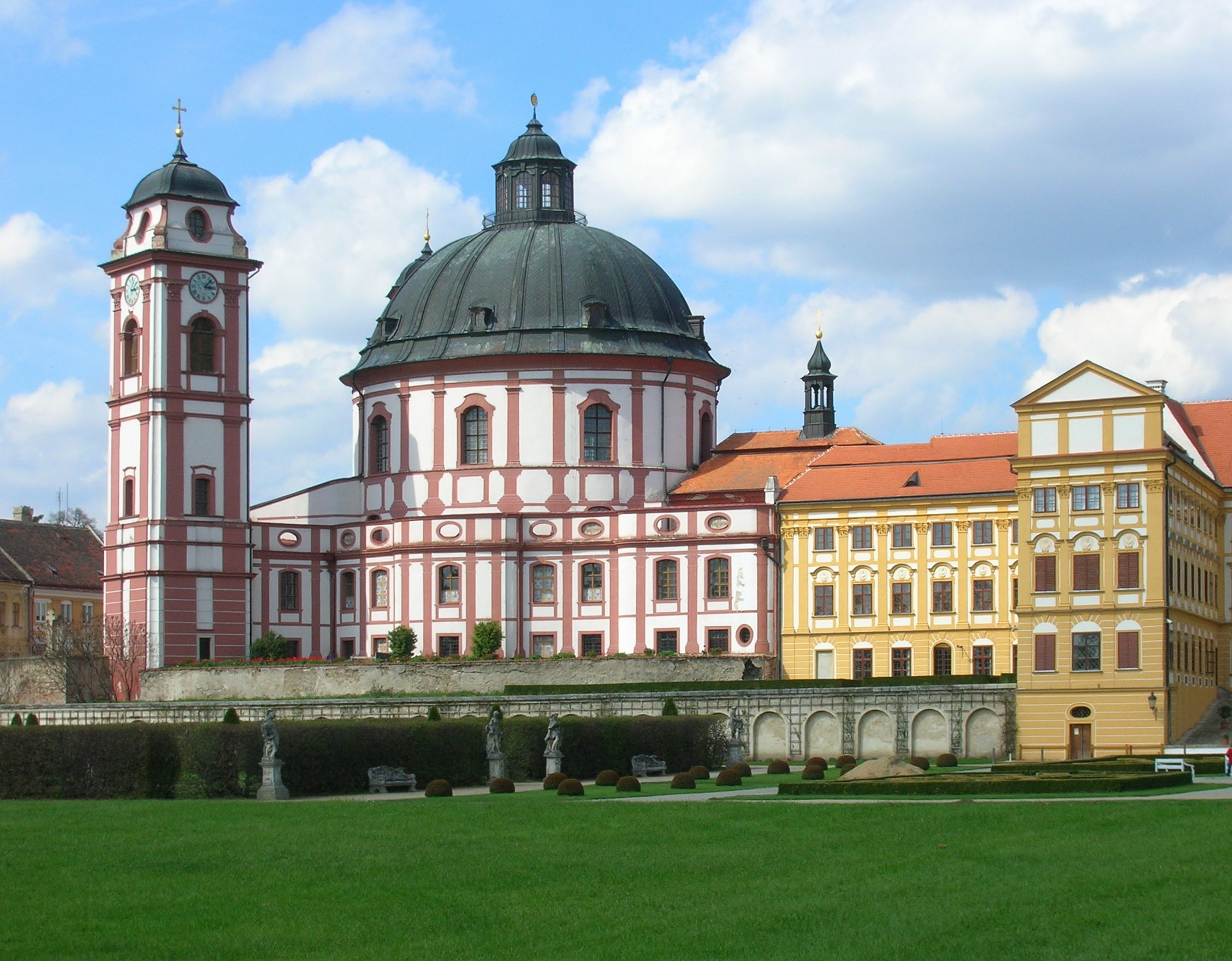 Jaroměřice nad Rokytnou. St. Margaret Church.